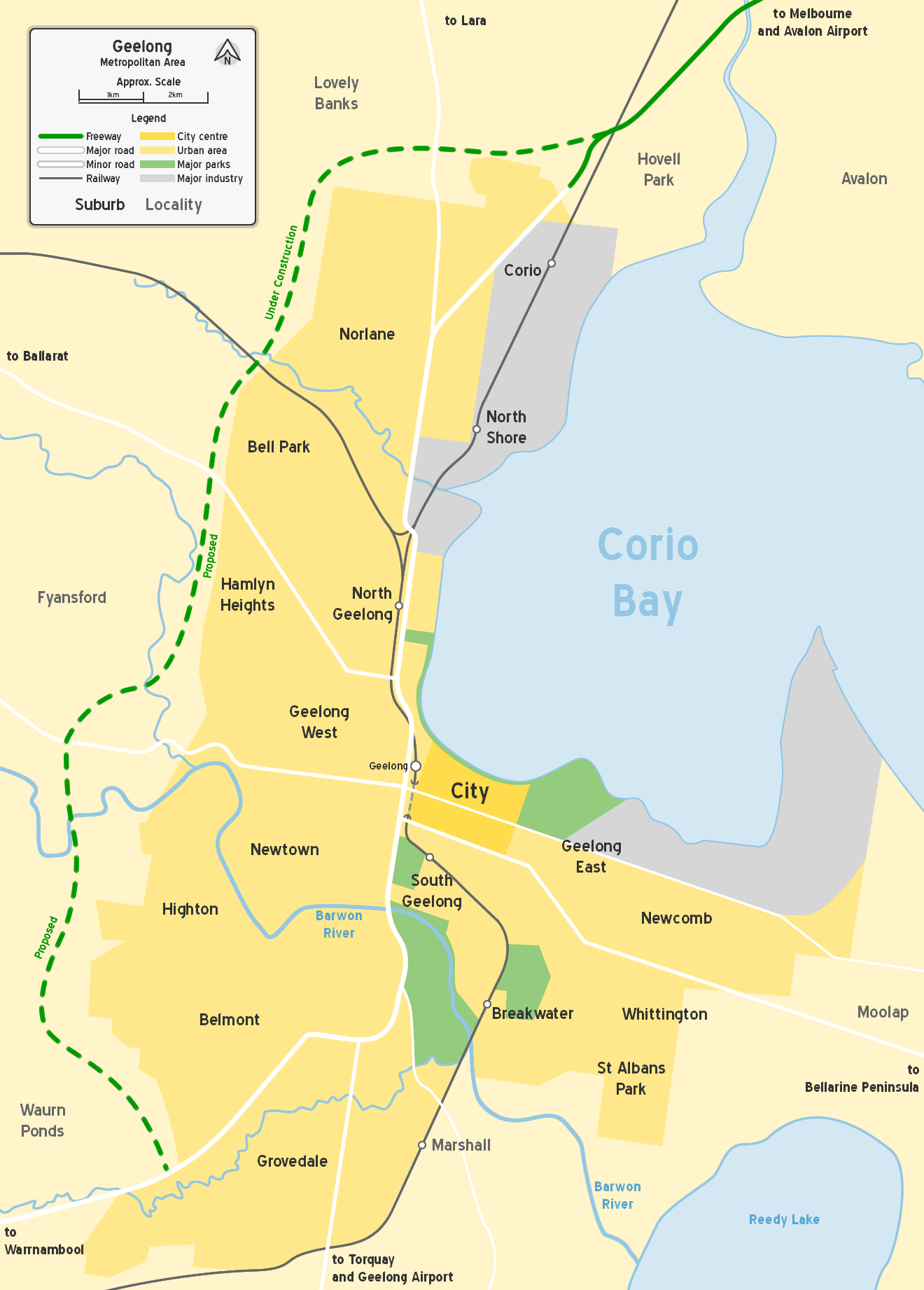 Map of Geelong metropolitan area, Victoria, Australia.